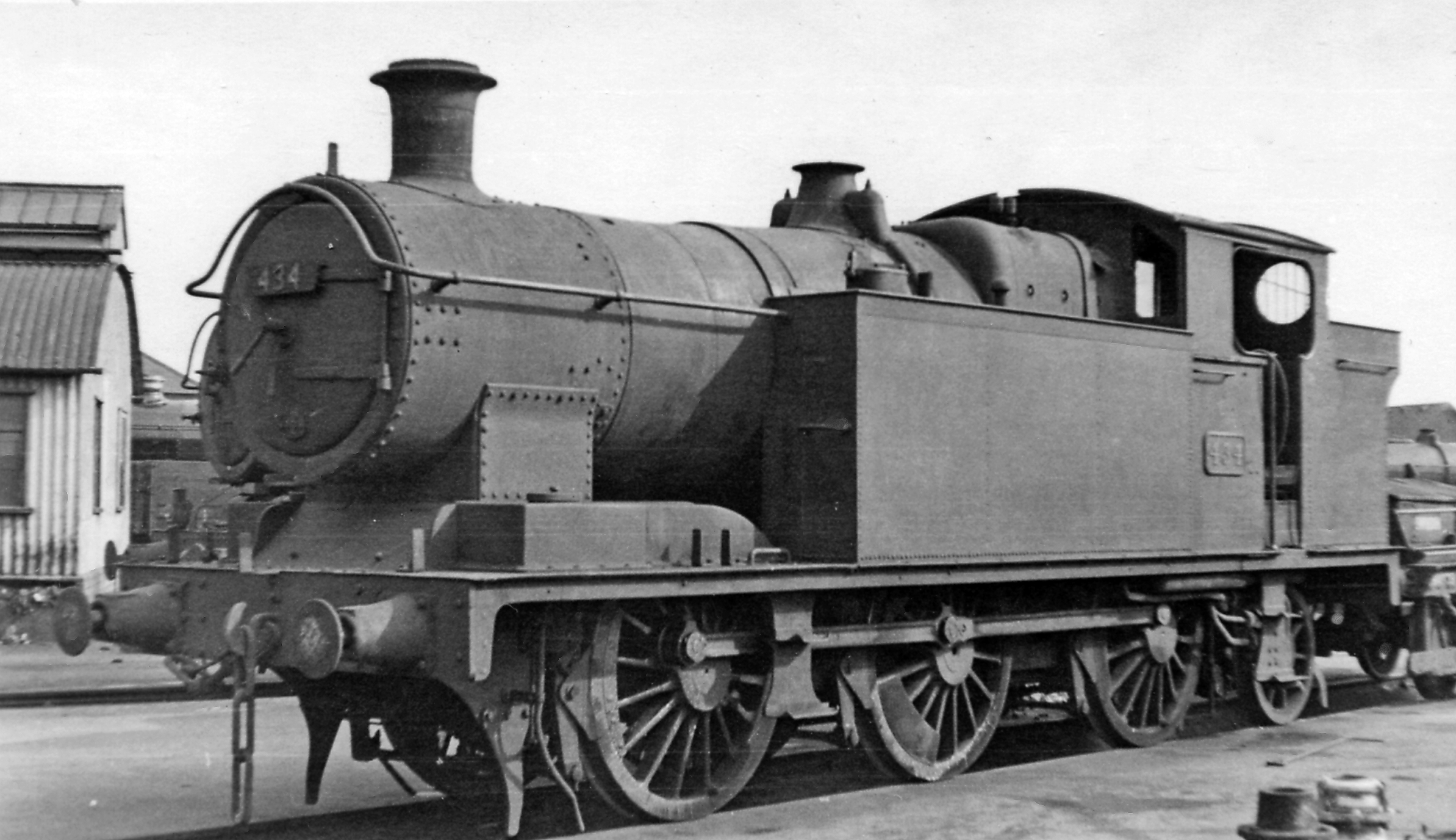 Ex-Brecon & Merthyr 0-6-2T as a Swindon Works Shunter. Before being scrapped, former South Wales lines locomotives were commonly used as Works Shunters at Swindon. Ex-GWR No. 434, seen here in April 1954, had been withdrawn in 9/53, having been built as B&M No. 48 in 2/21, acquired by the GWR in 1922 as No. 1375 and renumbered 434 by 1950.